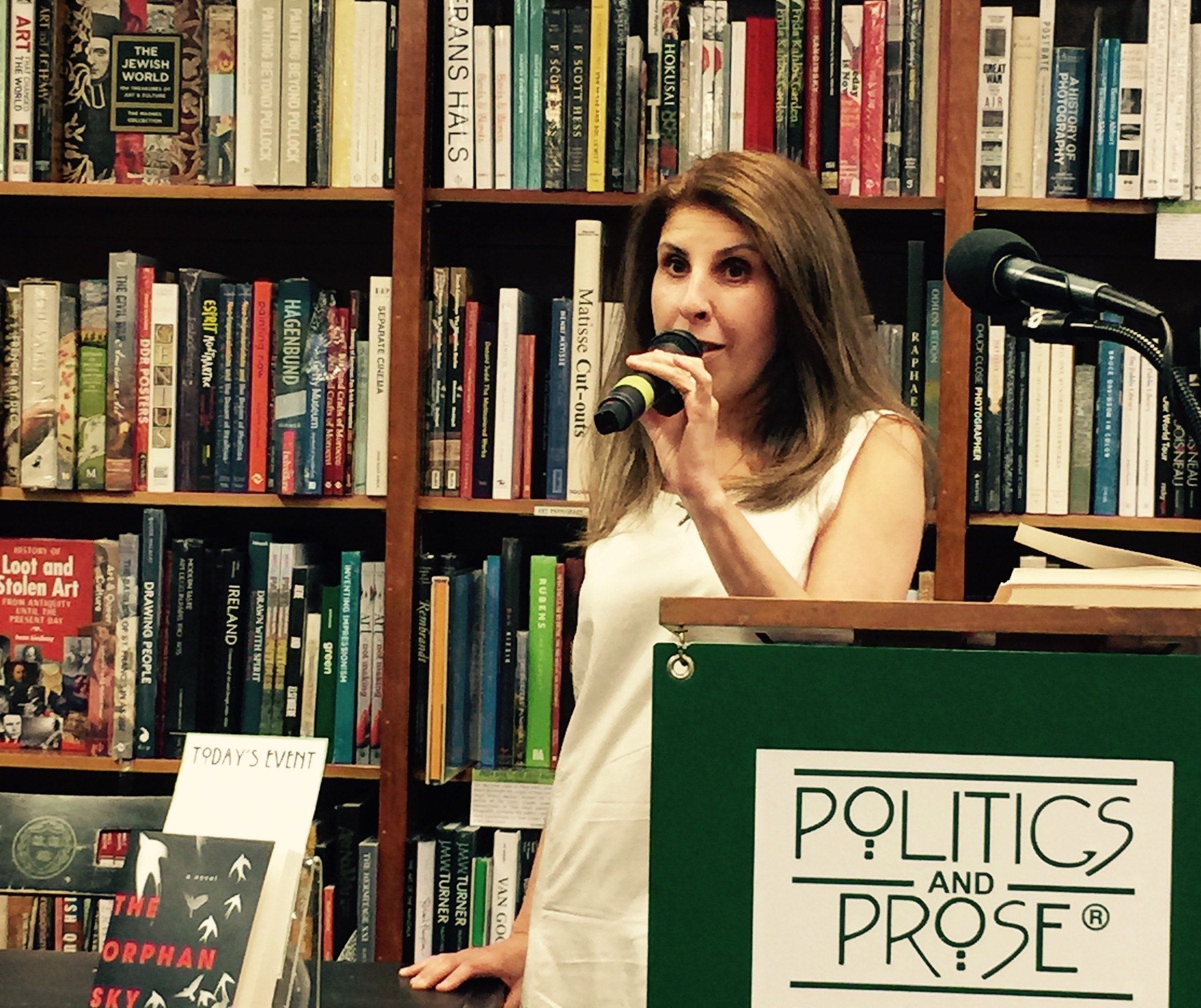 Ella Leya presents her debut novel The Orphan Sky on tour in America